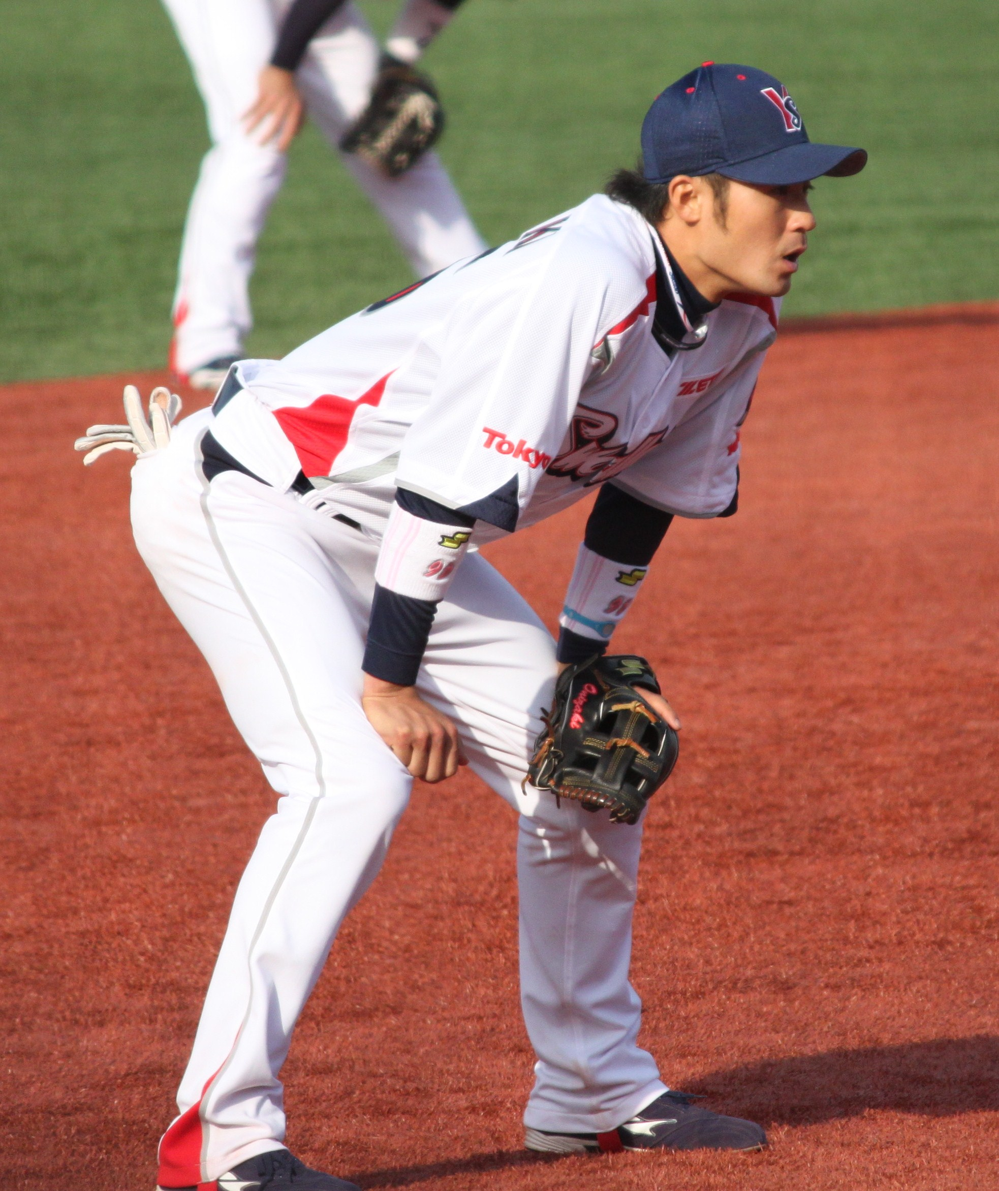 Yuji Onizaki, infielder of the Tokyo Yakult Swallows, at Meiji Jingu Stadium.